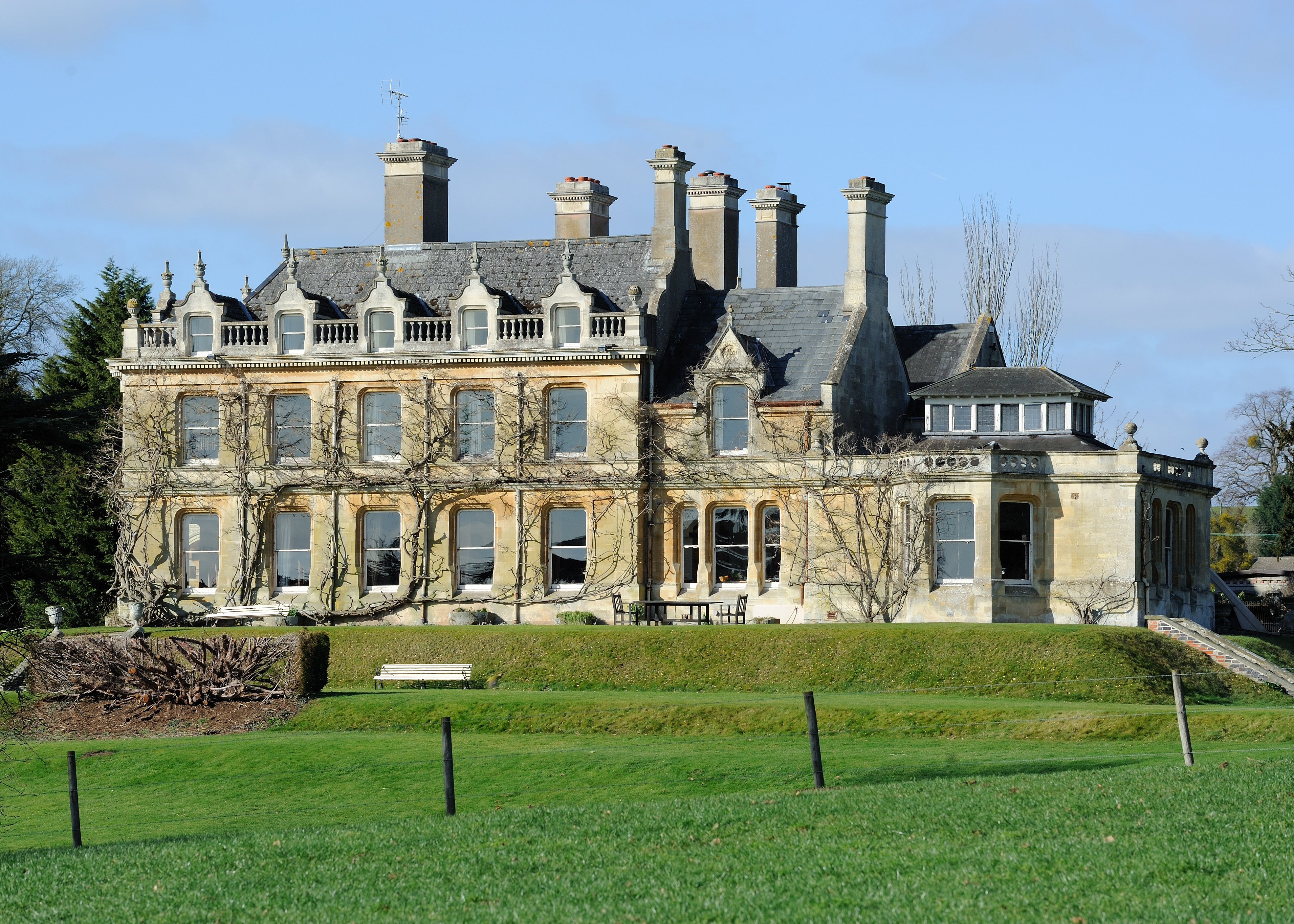 Hasfield parish became the seat of the Pauncefootes of Pauncefoote Court in 1199 and remained in their hands until 1598. All that remains of the original manor house appears to be an ancient gateway with several blank escutcheons found near the parish church. However Hasfield Court, depicted here, is built on the same site and is in and of itself a heritage building being listed by English Heritage as a Grade II* building. The manor house changed hands several times and once belonged (1847-63) to the architect Thomas Fulljames. The house was then sold to and remains in the ownership of the Baker family. William Baker was the last Abbot of Gloucester. Three of the Enigma Variations were based on the characters of members of the Baker family.